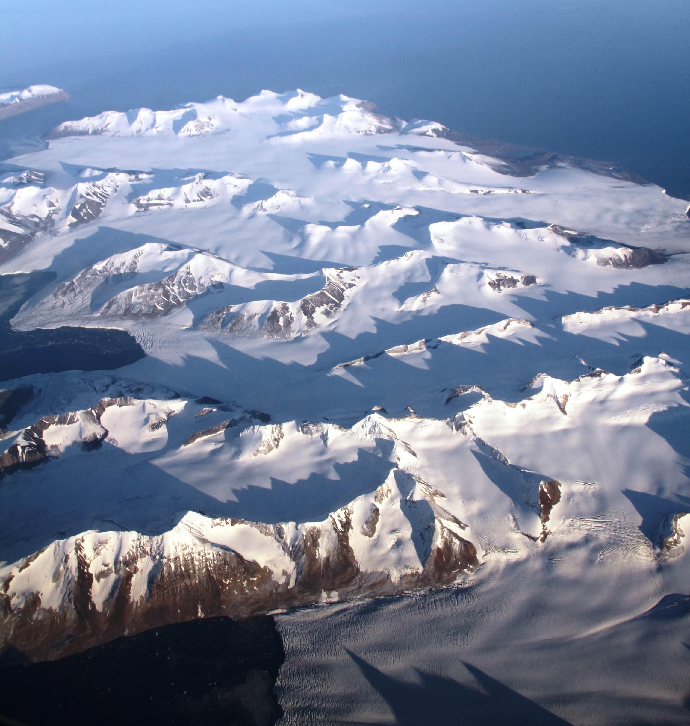 Aerial photo, from the west towards east, of the Sørkapp Land southernmost parts of Spitsbergen, Svalbard.